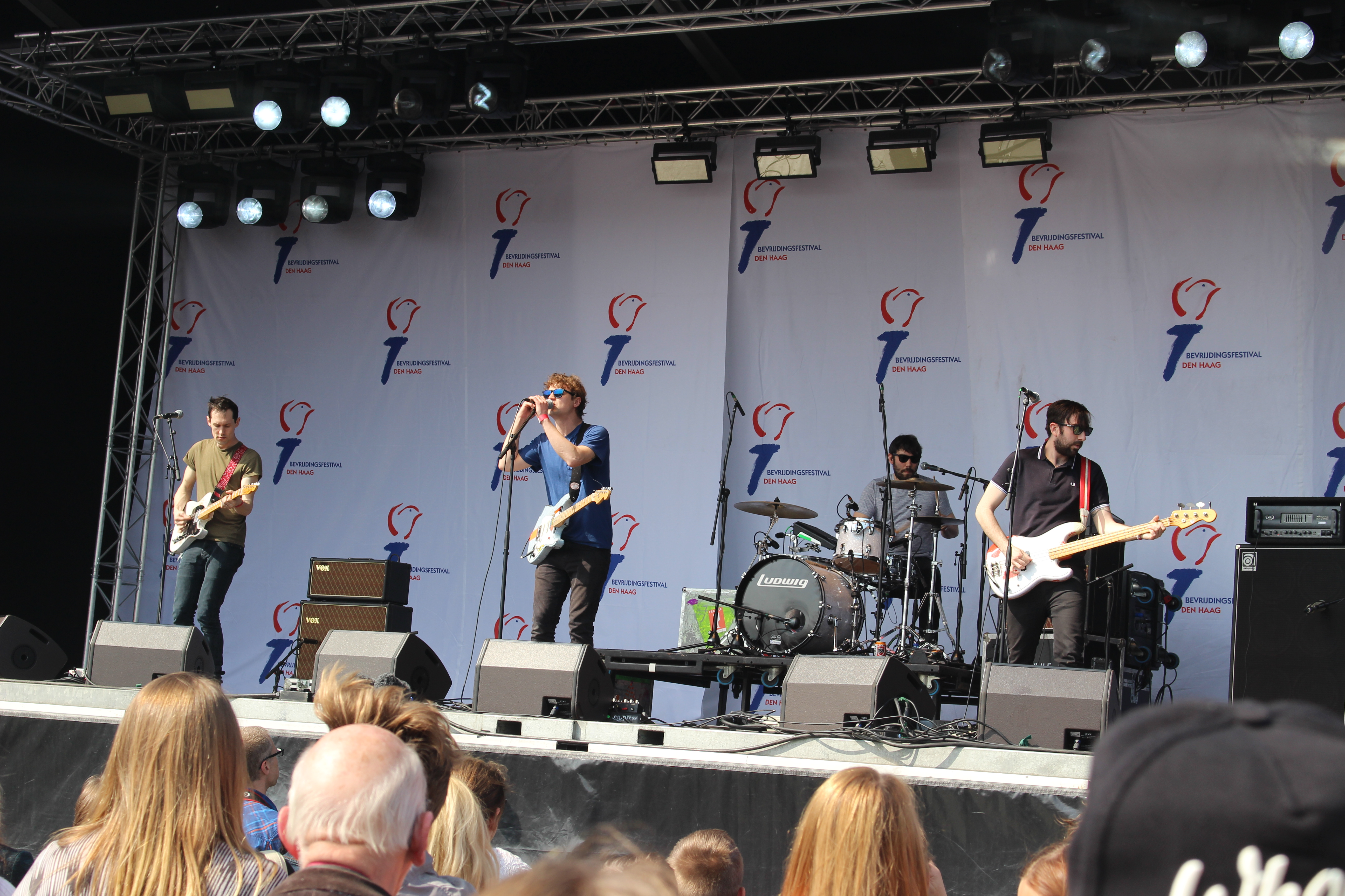 Performing at Bevrijdingsfestival 2014